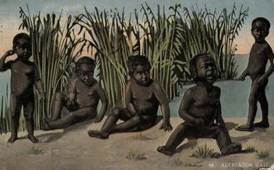 A racist postcard from 1914s depicting black children, with the caption "alligator bait".